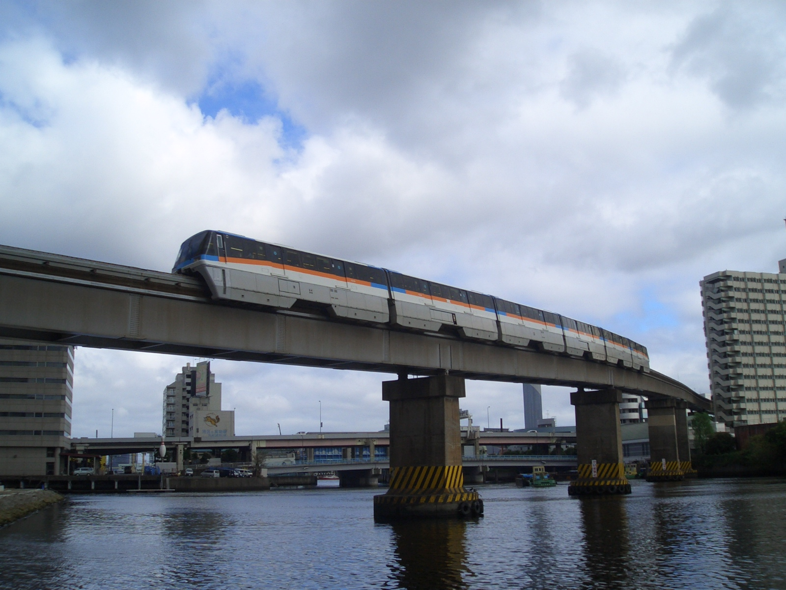 Tokyo Monorail across Shibaura. Tōkyō Monorail Haneda Line.